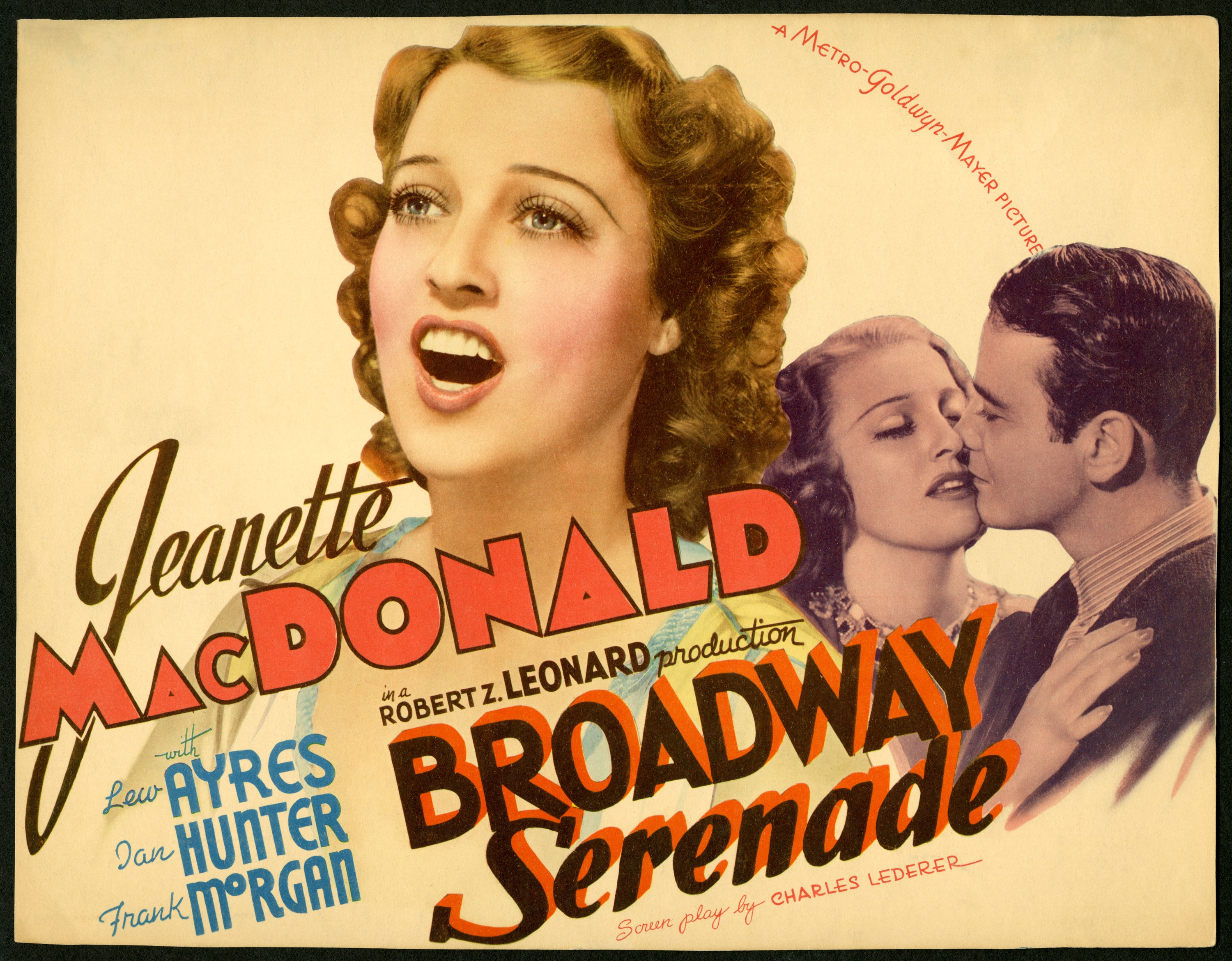 Poster for the american musical Broadway Serenade